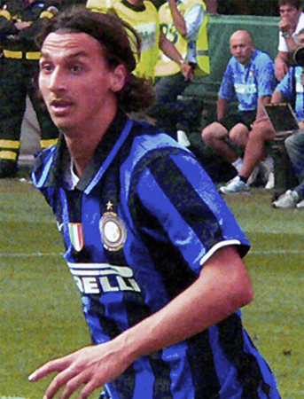 Zlatan Ibrahimović with Inter shirt